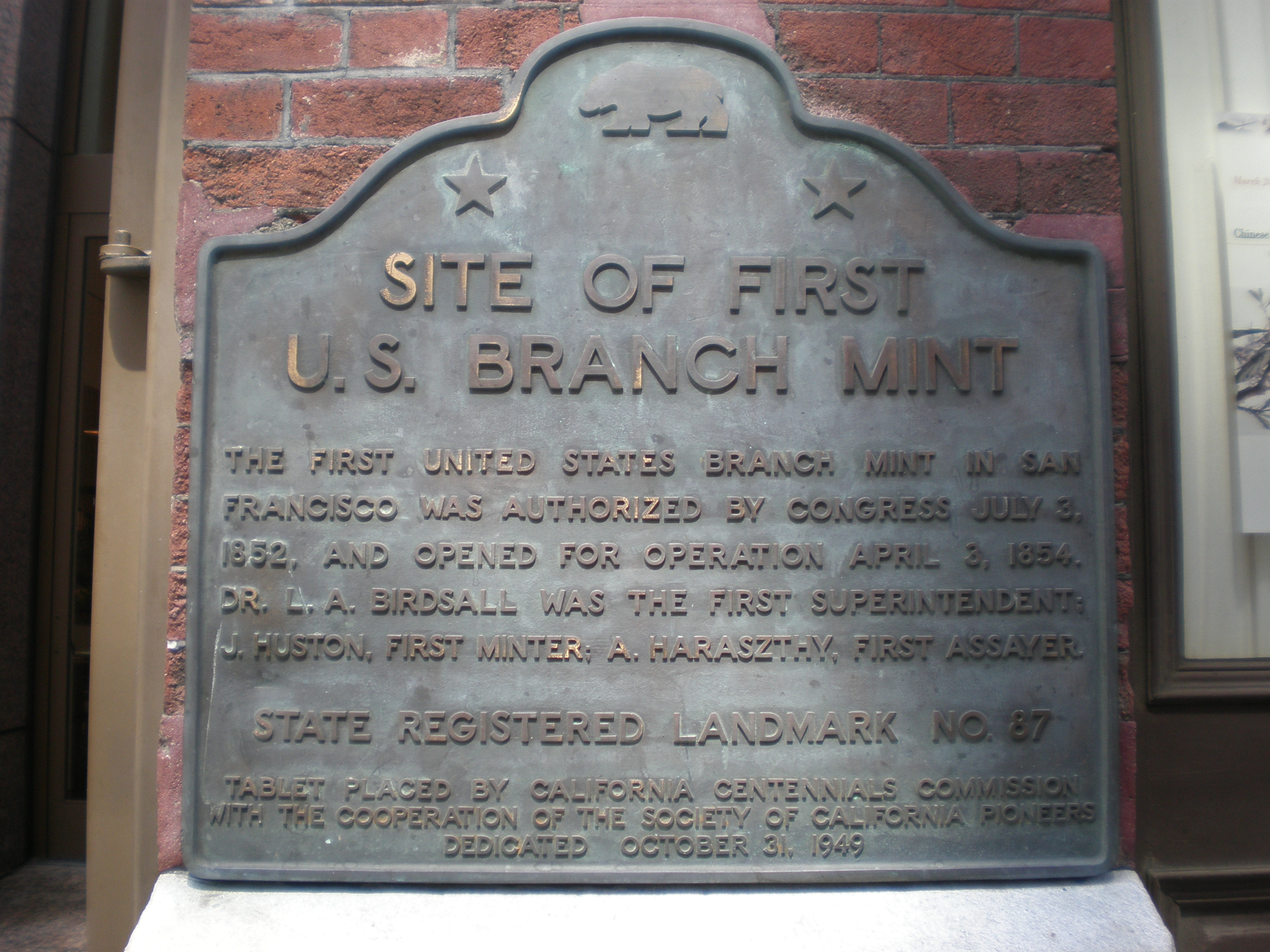 A plaque commemorating the location of the first U.S. branch mint, the 1854 San Francisco Mint in California. At the present day Pacific Heritage Museum in San Francisco.